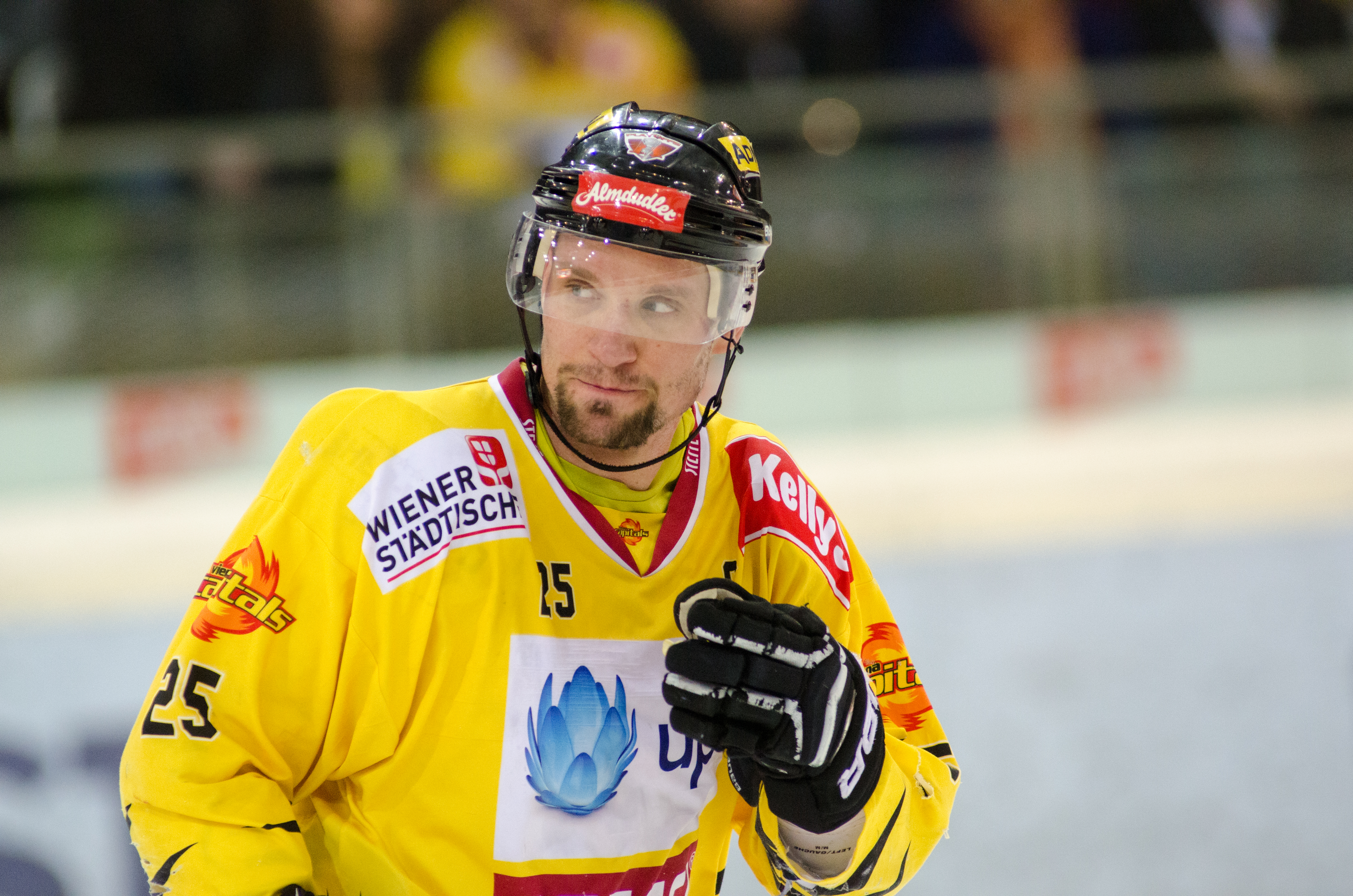 14.03.2014,Stadthalle Villach,Villach, AUT,Play Off Viertelfinale, EC VSV vs. UPC Vienna Capitals, im Bild ///, stewo Pictures © 2014, PhotoCredit: stewo/ Stephan Woldron